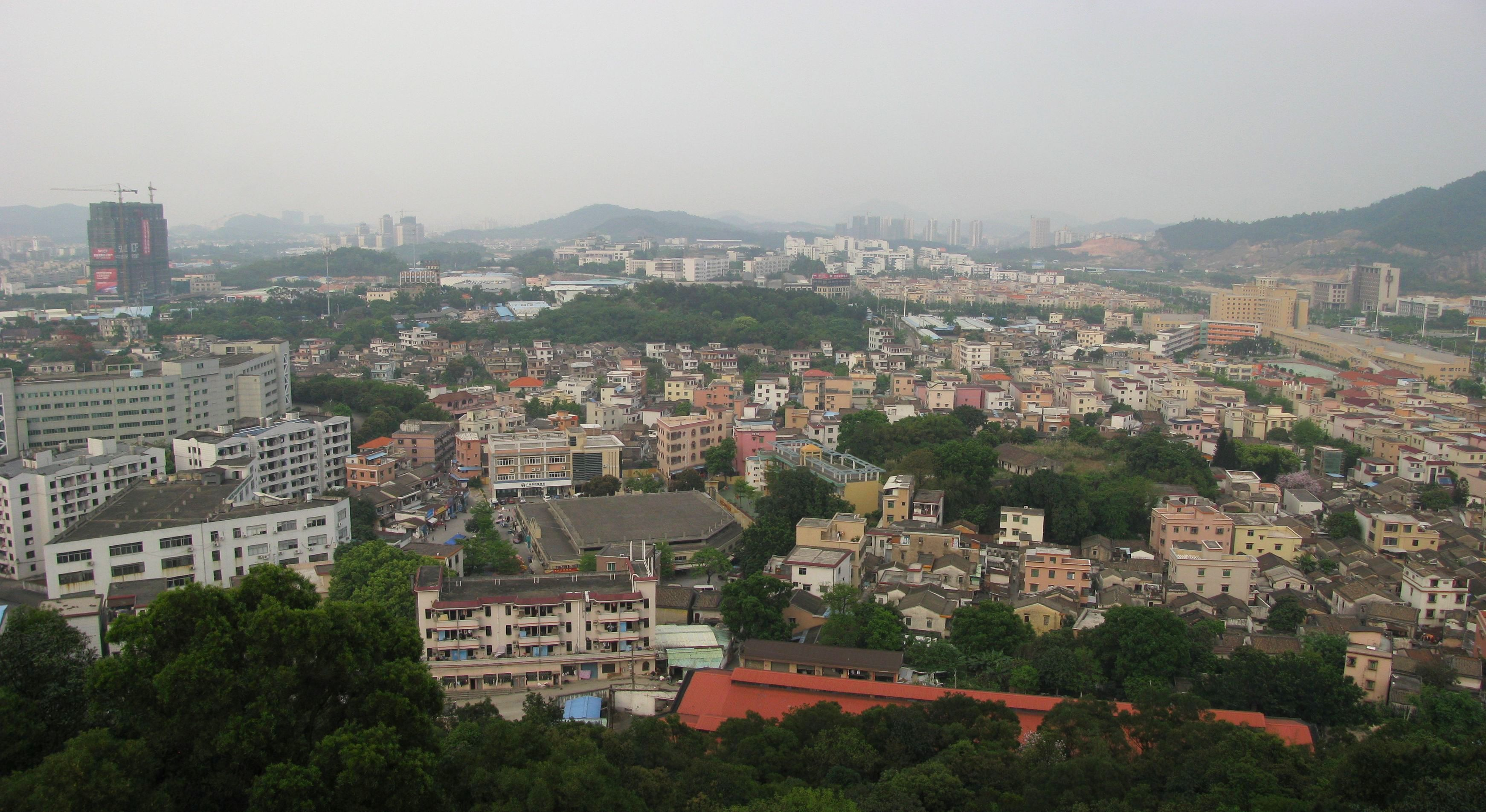 The Zhongshan in Guangdong, China.